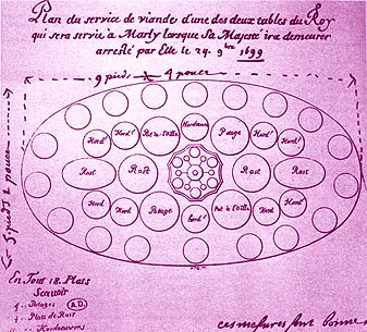 Table of the Sun King in Marly 1699